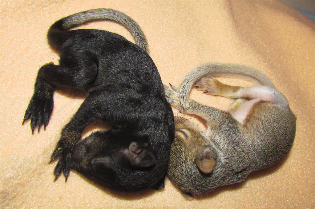 8/25/11 These little girls were from two different litters but they're exactly the same size and are growing at the same rate.